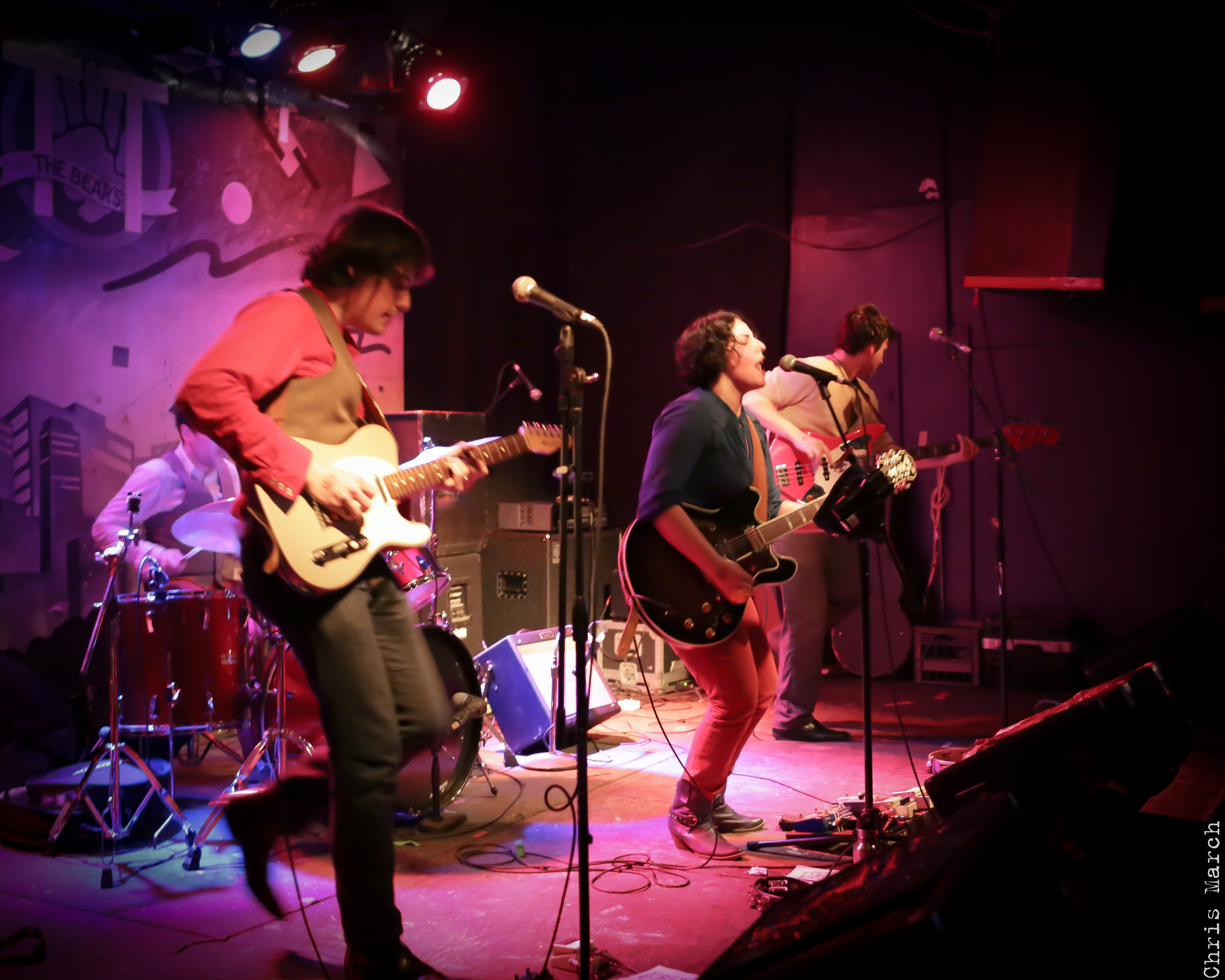 Aloud performing at T.T. the Bear's Place in Cambridge, Massachusetts on February 26, 2013. L to R: Frank Hegyi, Henry Beguiristain, Jen de la Osa, and Charles Murphy. (Photo: Chris March)